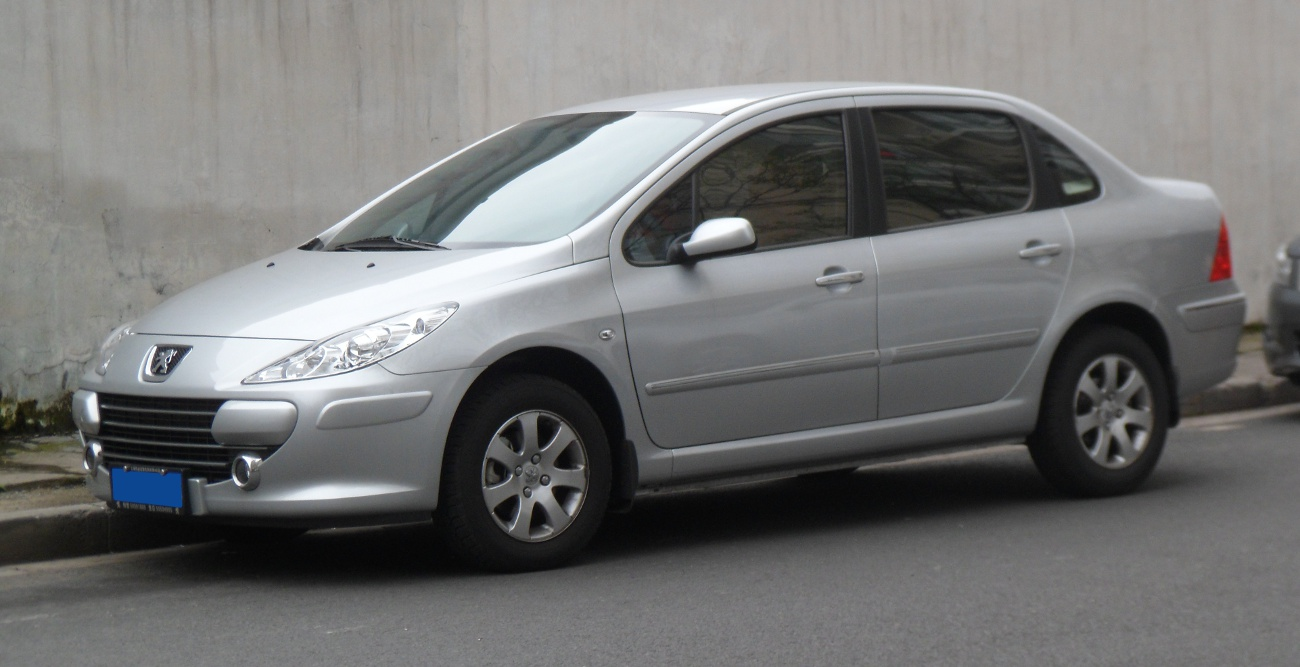 Peugeot 307 sedan photographed in Shanghai, China.